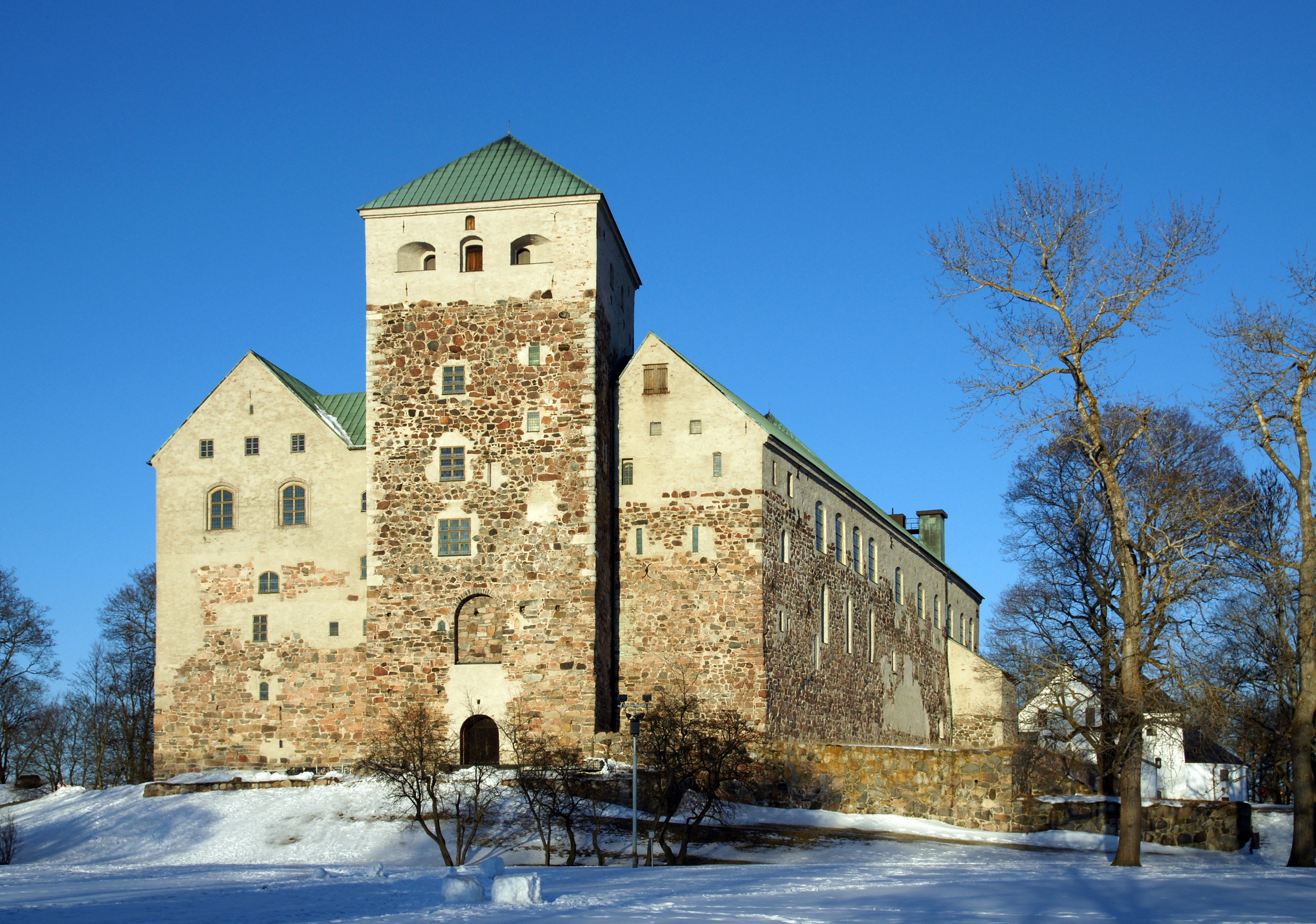 Turku Castle.